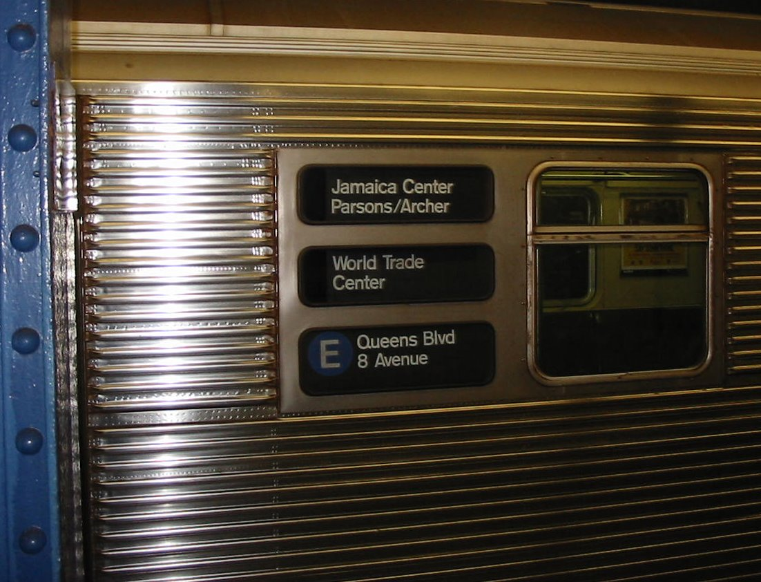 NYC subway train that still says "World Trade Center" more than four years after 9/11. By DF Shapinsky for MultiMedia. and